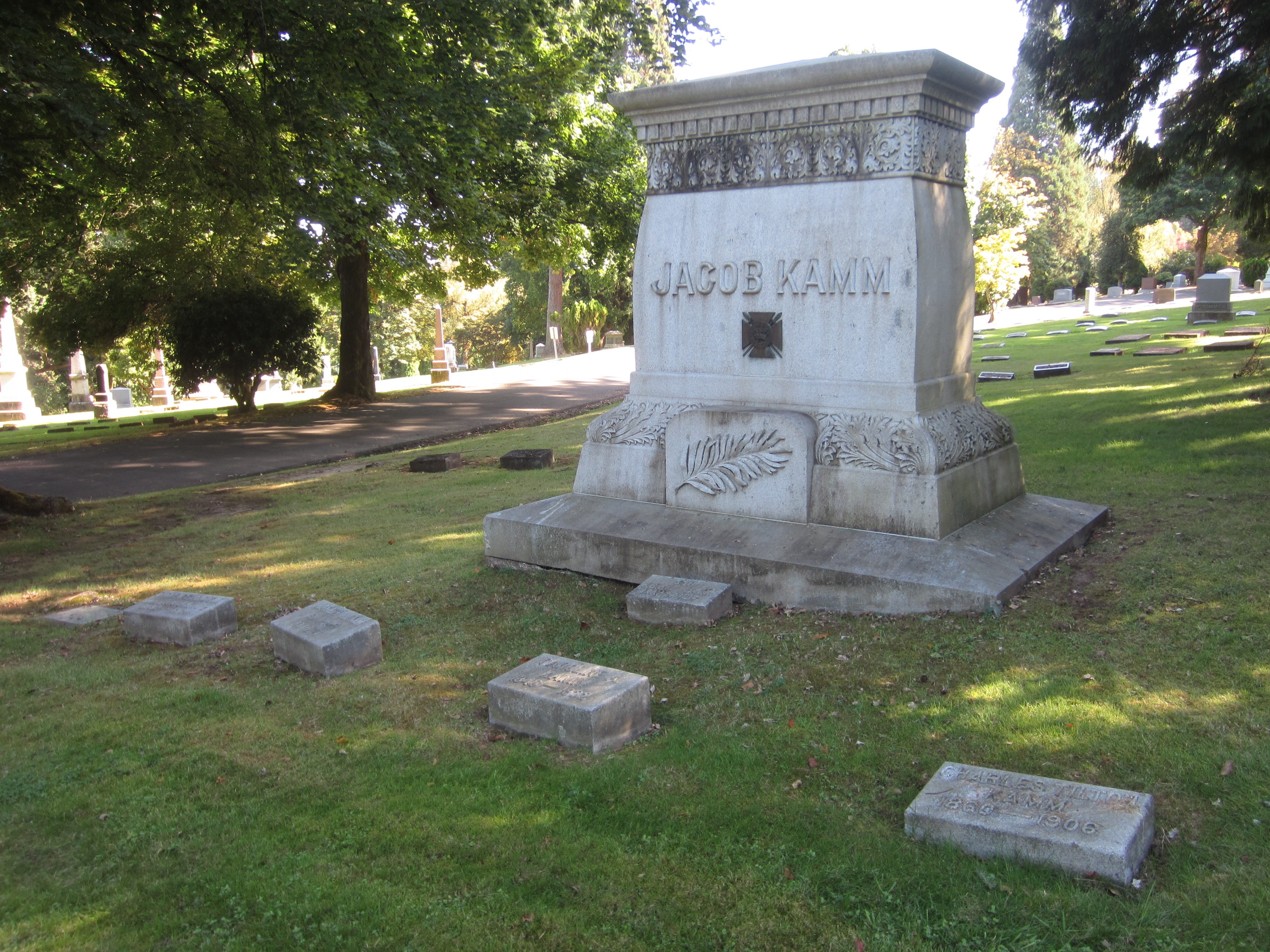 Grave of Jacob Kamm at River View Cemetery, Portland, Oregon - Sept. 2017